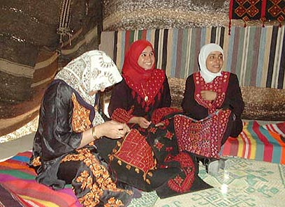 Art of Israel